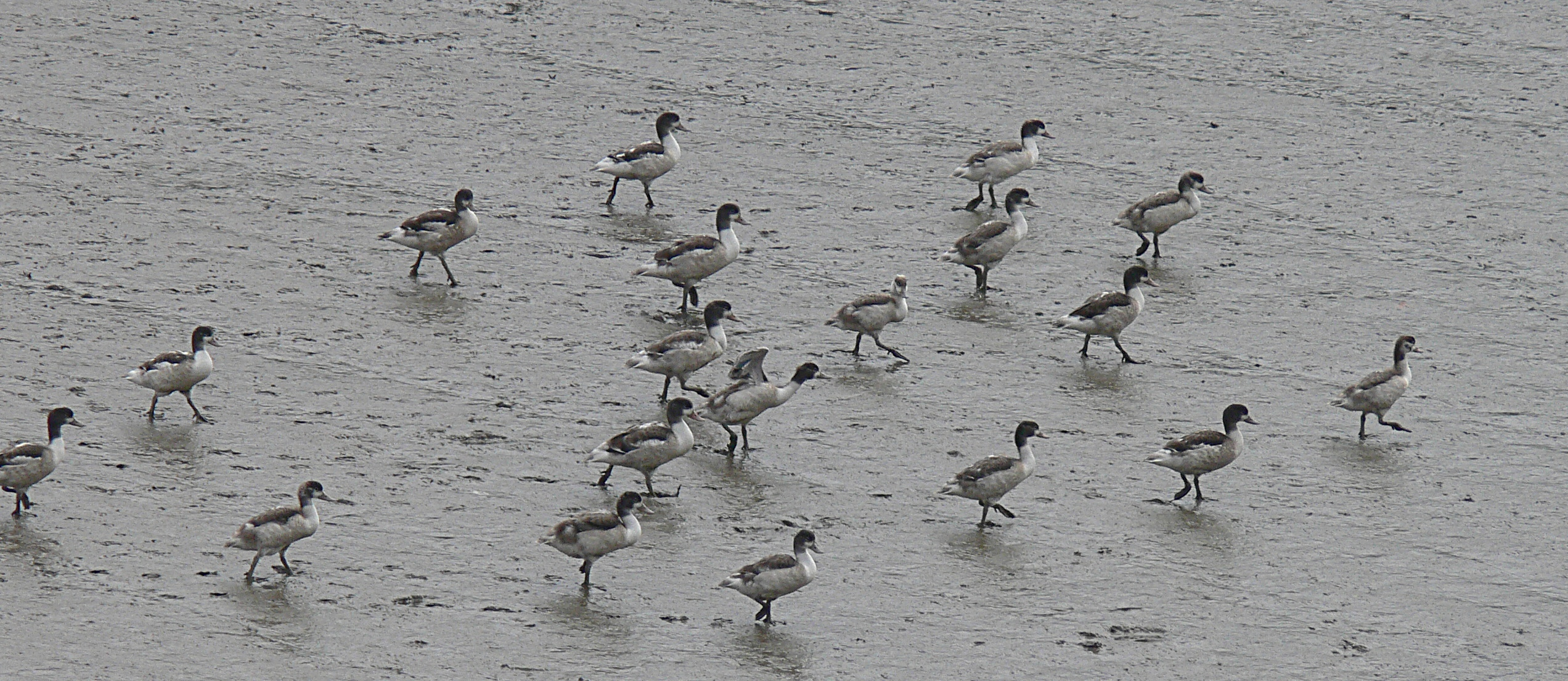 Youngs Tadorna tadorna (Common Shelduck) on Mudflats of the french coastal river The River Penzé (Summer 2010), upstream from the estuary of the river Penzé In the Baie de Morlaix (fr) (filed ZNIEFF, rich in birds with sometimes Alca torda, not far from the mudflats of Locquénolé (Important for birds) and from the River of Morlaix who form the other great natural infrastructure of the French Blue Frame in this area. For" Water management", this river is Concerned by SAGE (Schéma d'aménagement et de gestion des eaux) "Leon Trégor".